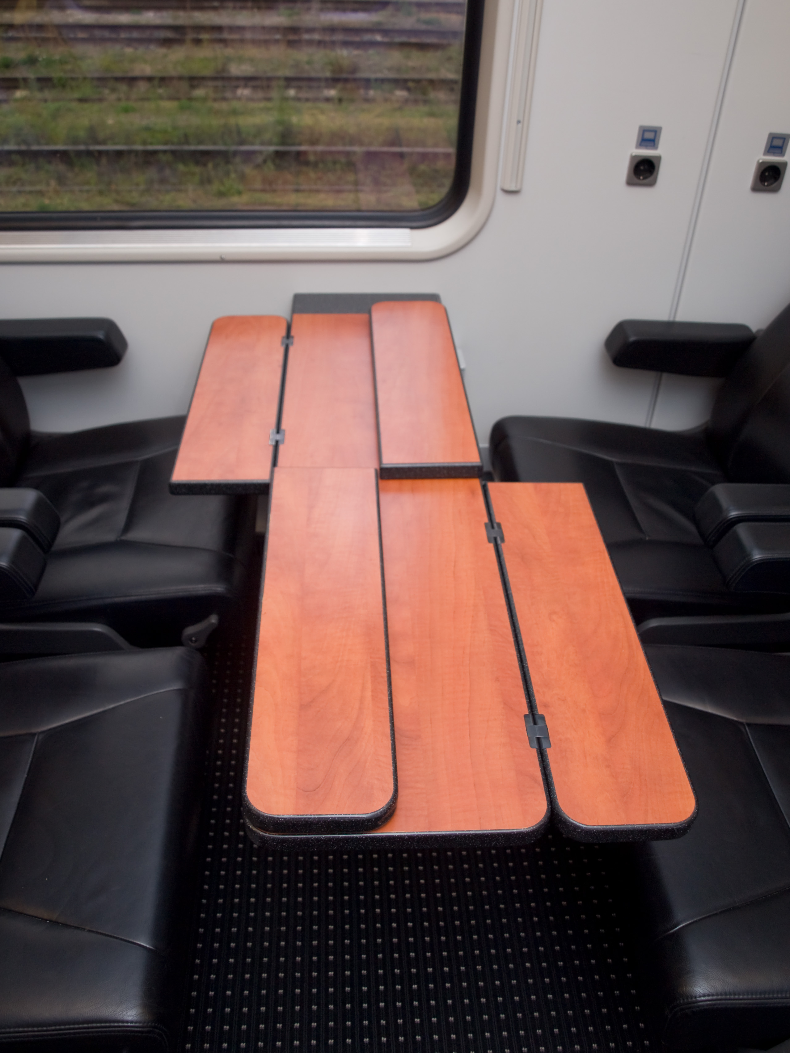 Interior of coach, train of RegioJet at Praha-Smíchov, severní nástupiště Tato série fotografií vznikla za laskavého svolení společnosti Student Agency – RegioJet